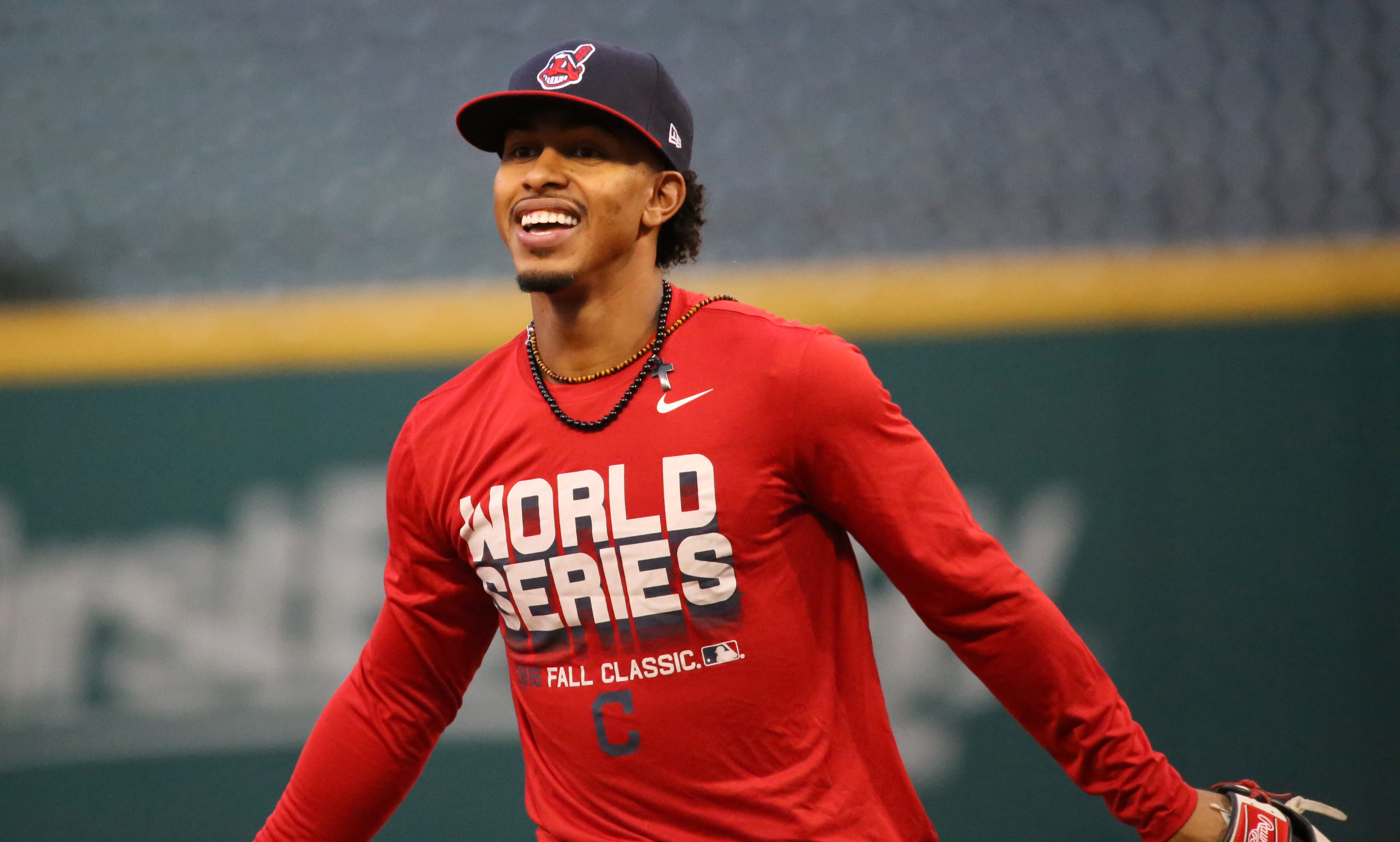 Indians shortstop Francisco Lindor plays catch during Sunday's workout at Progressive Field.